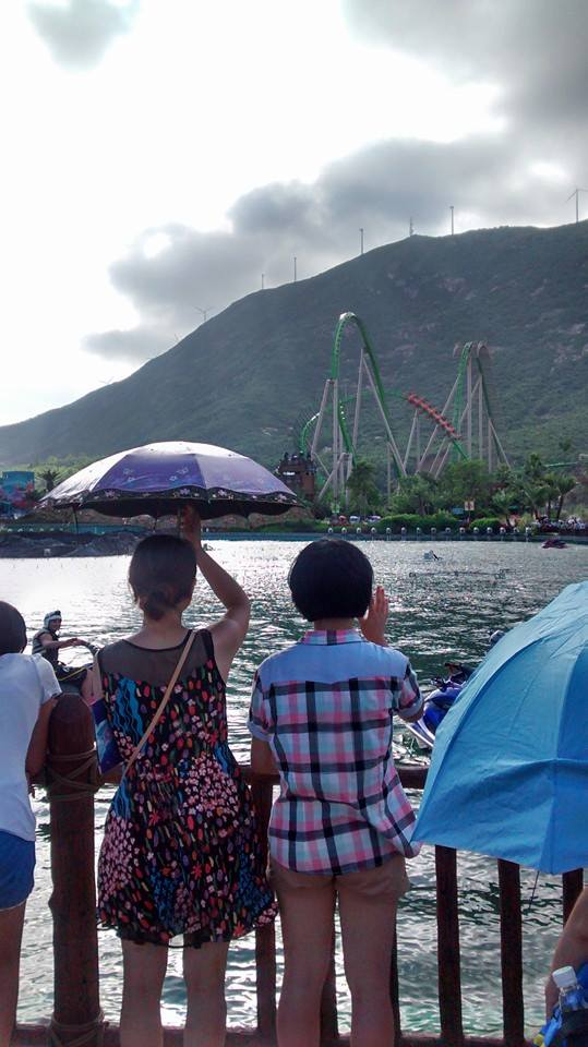 view2